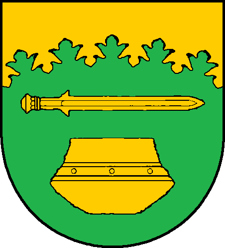 Coat of arms of the municipality Hammoor in Schleswig-Holstein, Germany.